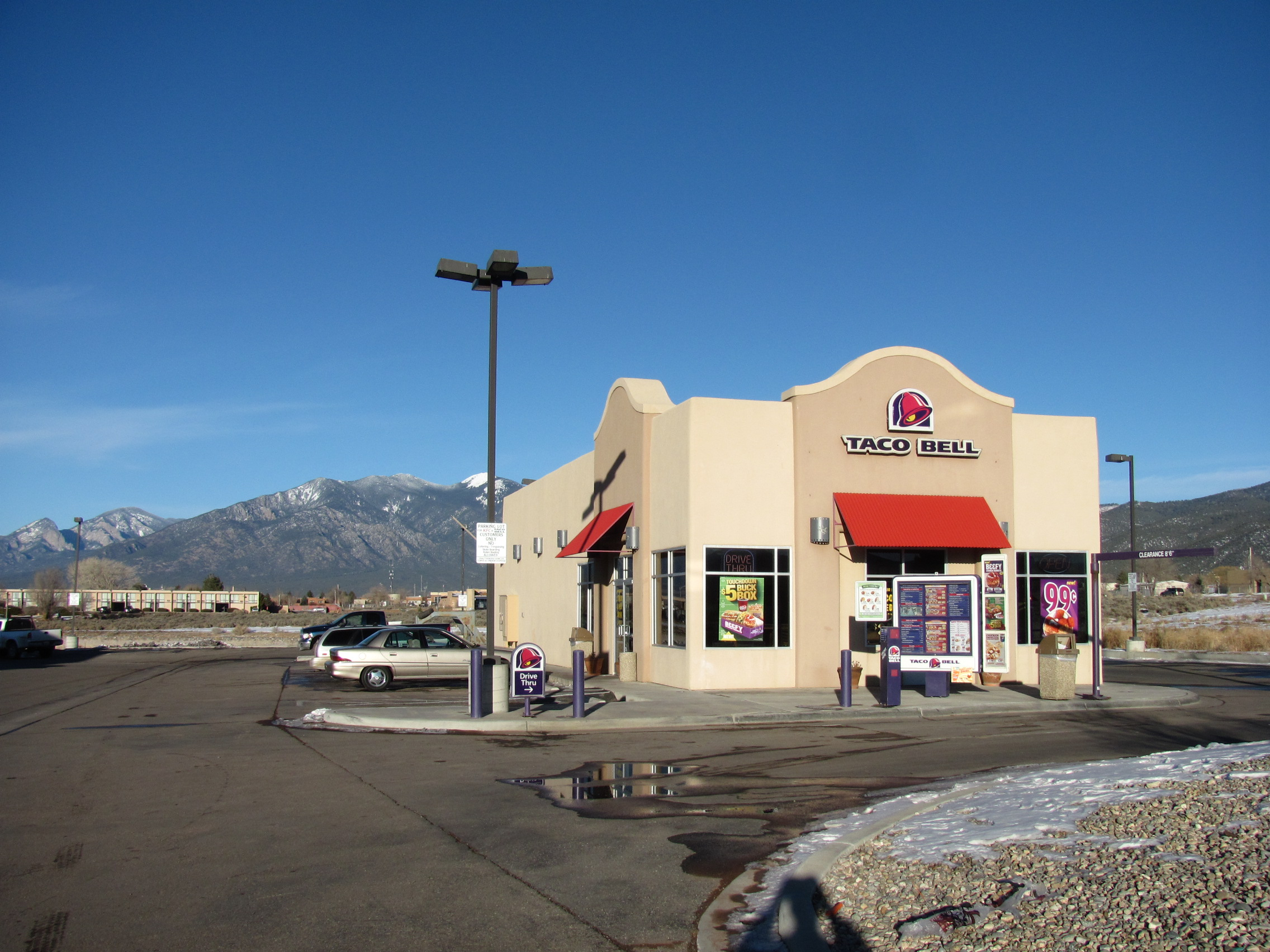 Taco Bell, Taos New Mexico